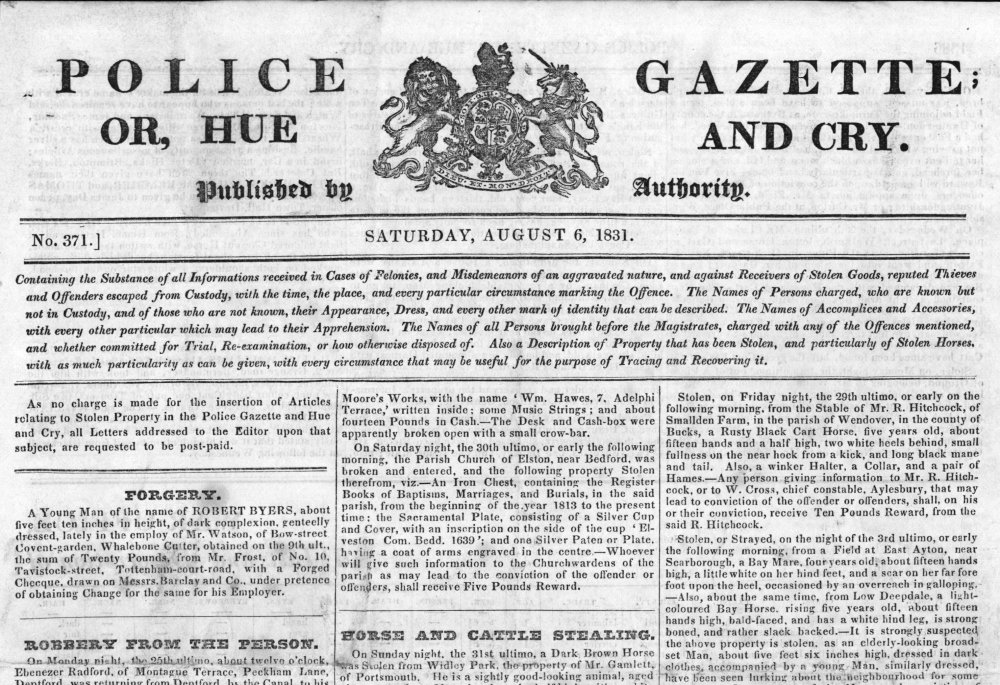 Part of front page of "Police Gazette; or, Hue and Cry. Published by Authority. No. 371. Saturday, August 6, 1831.